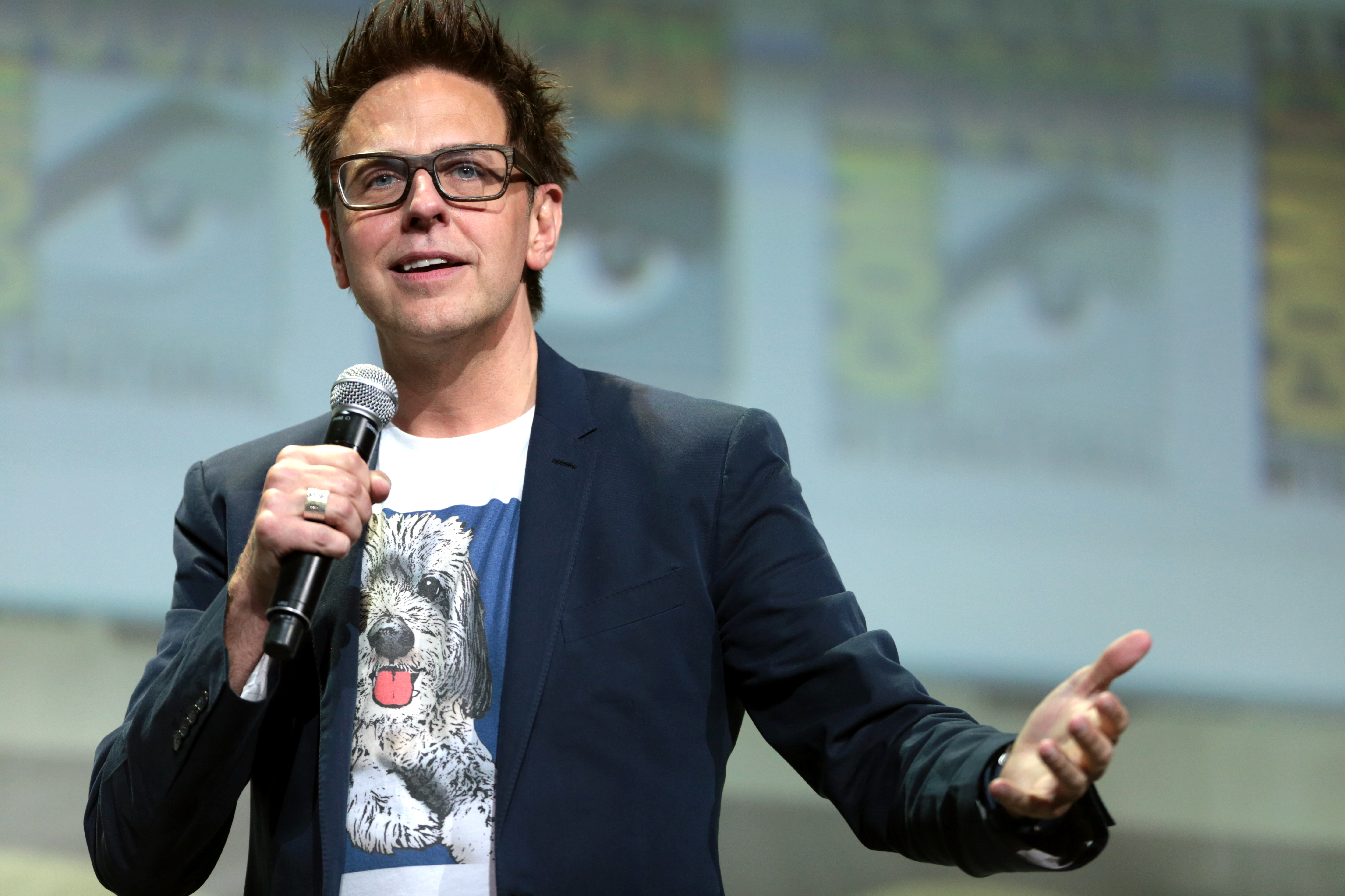 James Gunn speaking at the 2016 San Diego Comic Con International, for "Guardians of the Galaxy Vol. 2", at the San Diego Convention Center in San Diego, California.